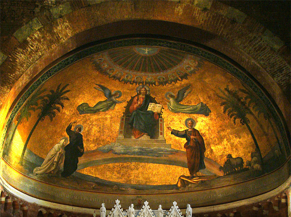 Focus on the gold ceiling of San Pietro in Ciel d'Oro in Pavia, Italy.